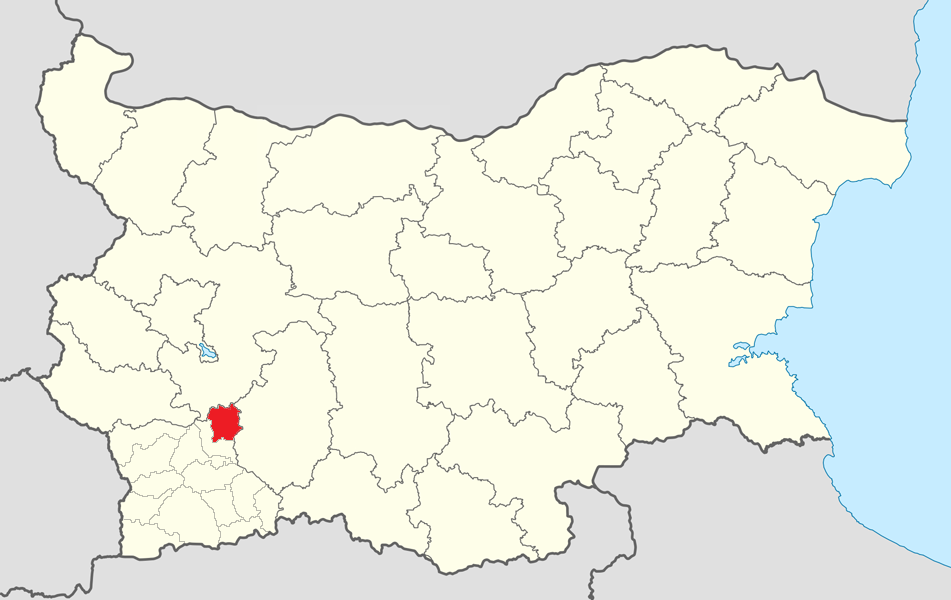 Location map of Yakoruda Municipality within Bulgaria and Blagoevgrad province